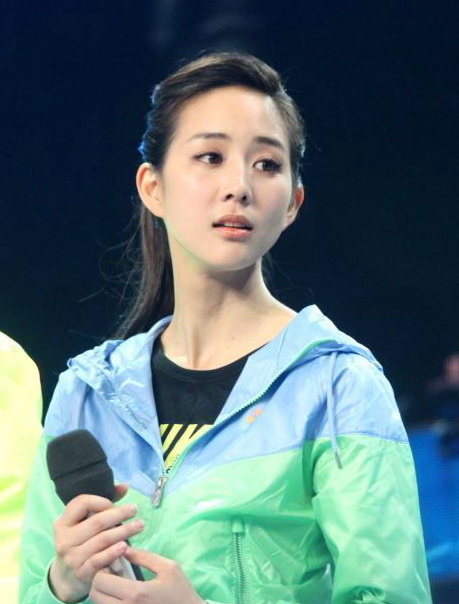 Janine Chang